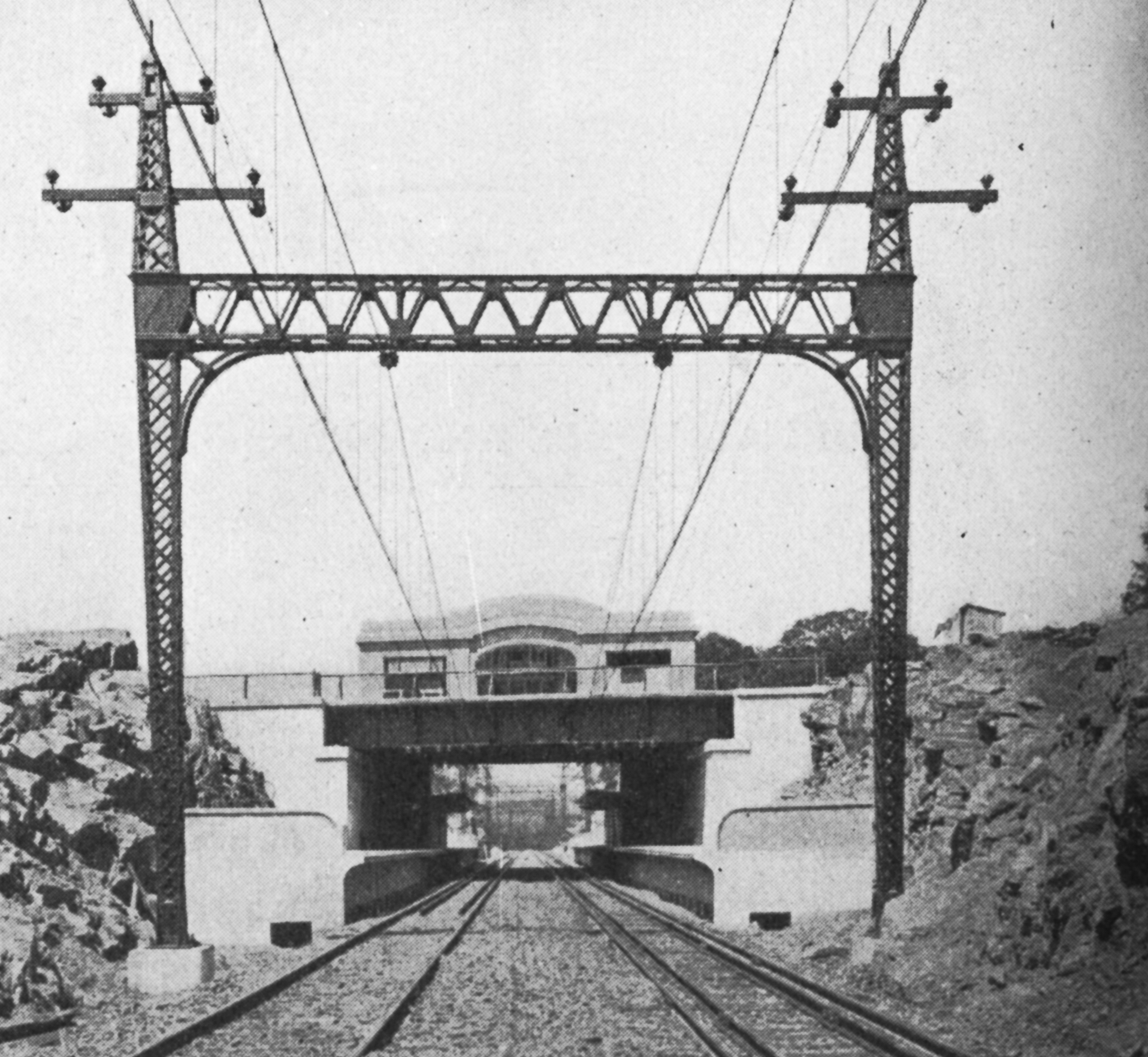 Typical station in a cut on the New York, Westchester and Boston Railway.